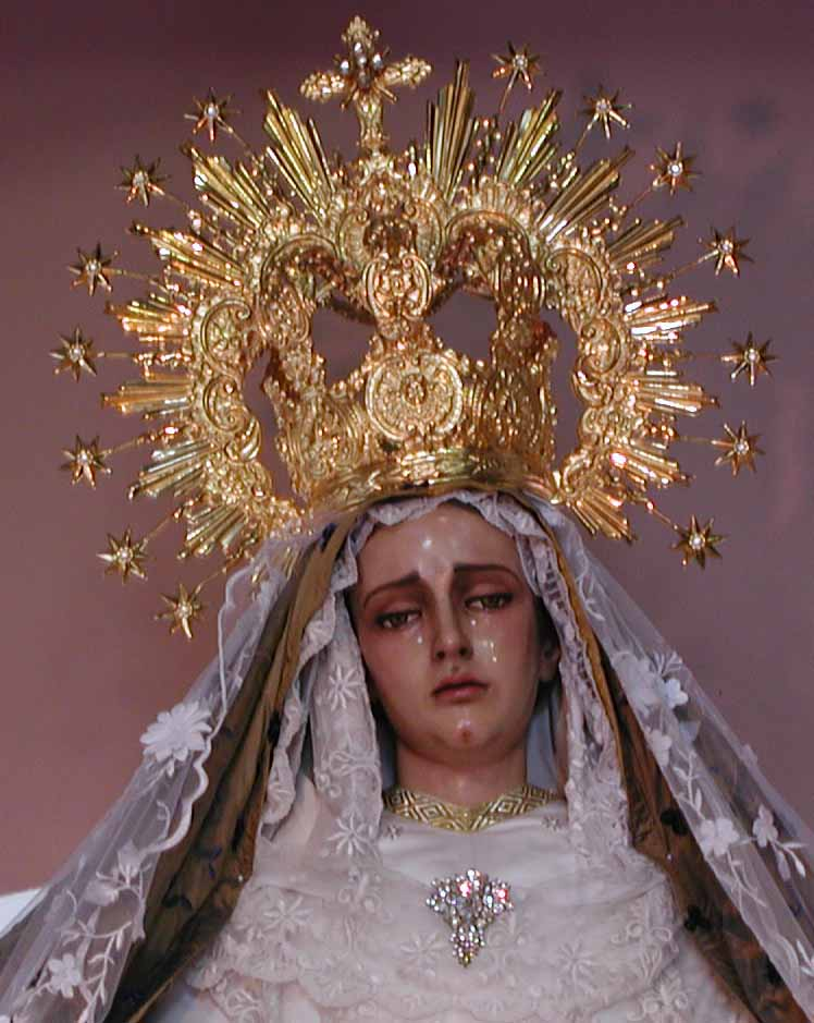 Broeder Hugo made this picture of "Our Lady, the Garden Enclosed," a statue od Our Lady of Sorrows venerated in Warfhuizen, the Netherlands.